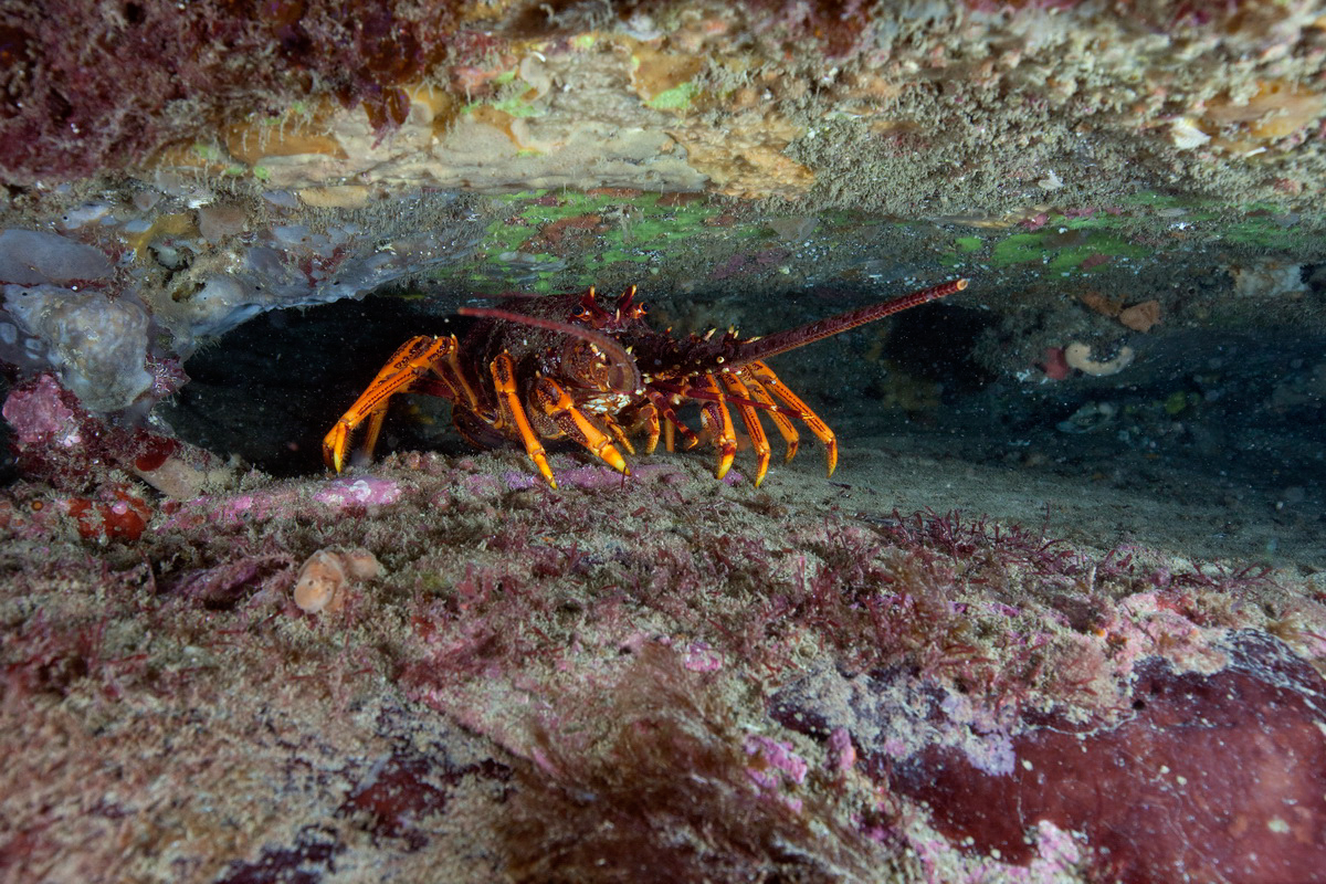 Jasus edwardsii, Southern Rock Lobster. Location: Australia, Victoria, Cape Paterson, Bunurong Marine National Park, Twin Reefs. Photographer: Julian Finn